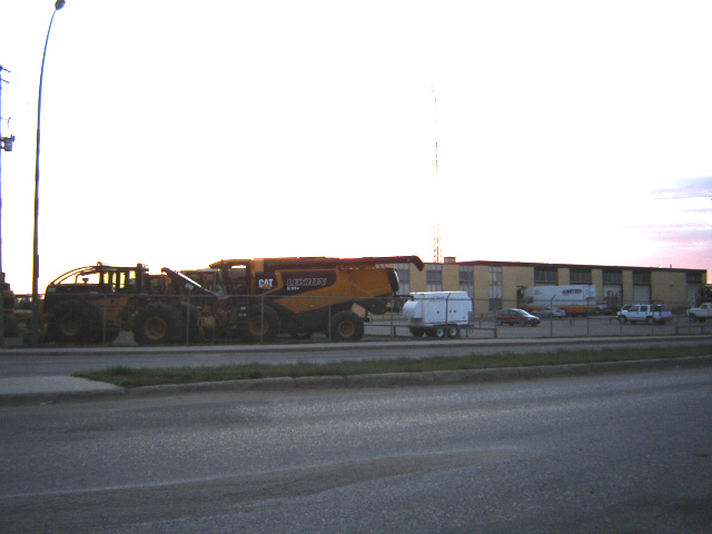 A Caterpillar loader and a Caterpillar (Claas) Lexion combine harvester at Kramer Ltd. (Caterpillar dealer since the 1940s), AgPro Industrial, Saskatoon, Saskatchewan, Canada